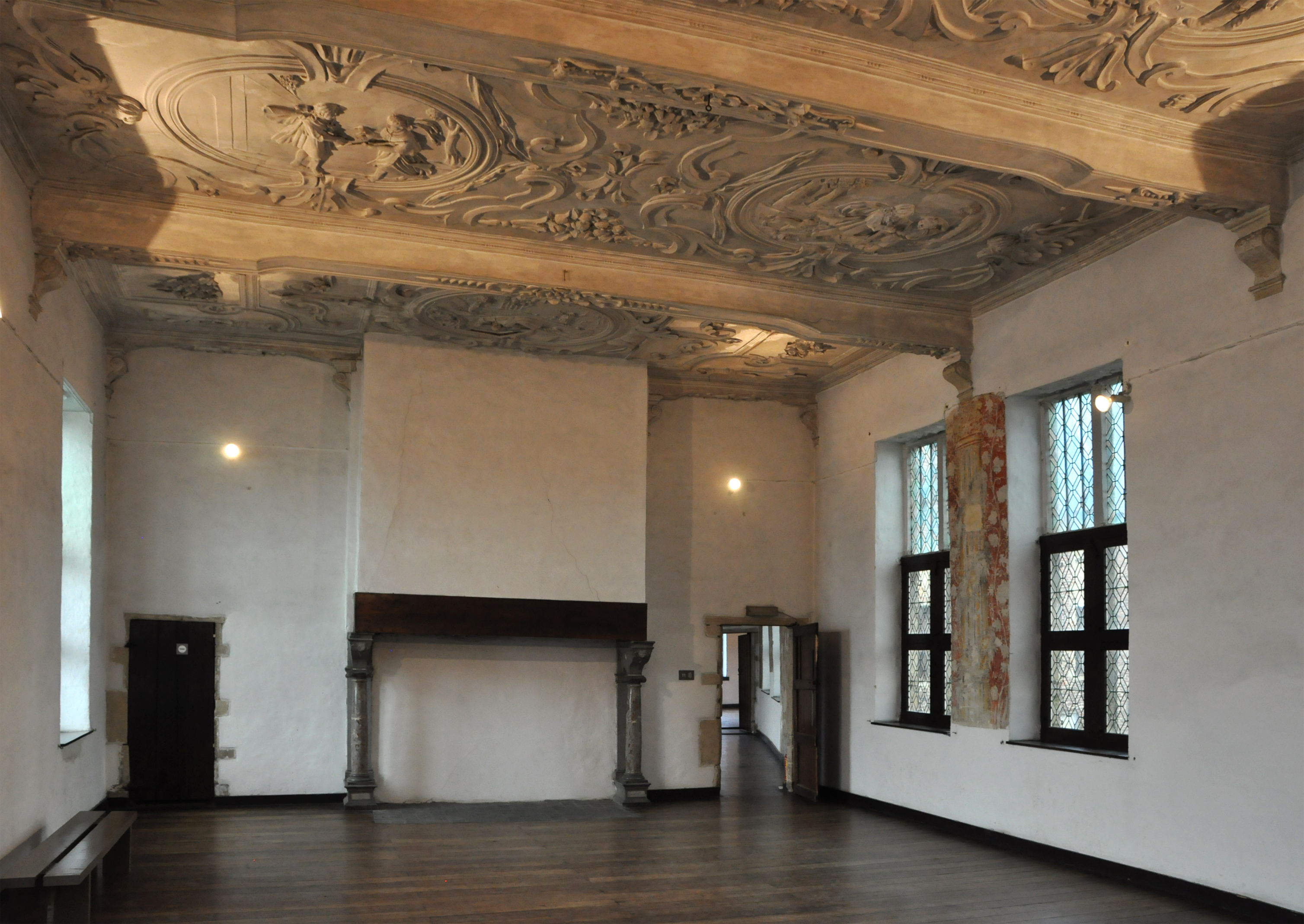 Sint-Pieters-Rode (municipality of Holsbeek, Belgium): Horst castle, interior